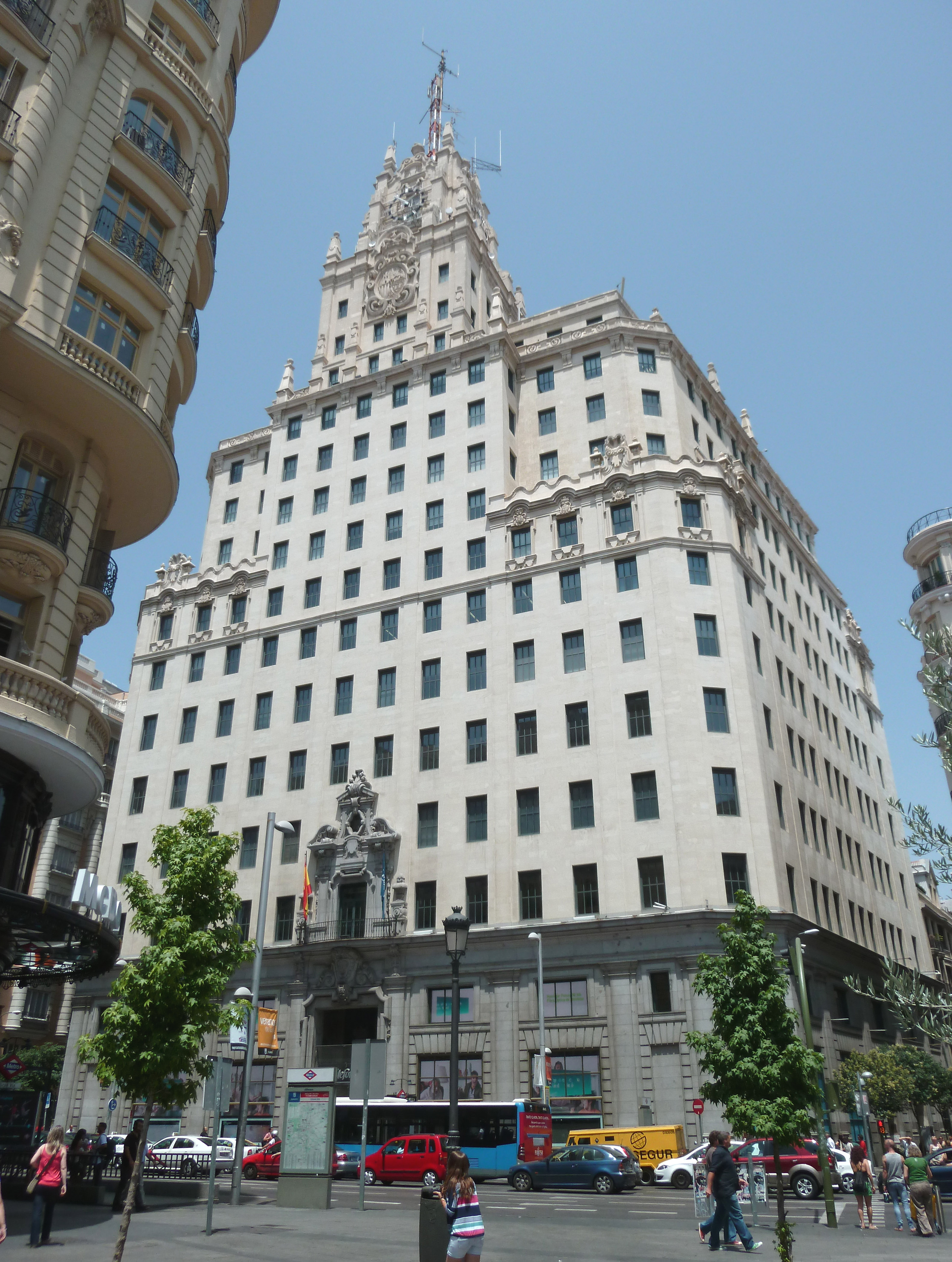 Façade of Telefónica Building in Madrid (Spain).